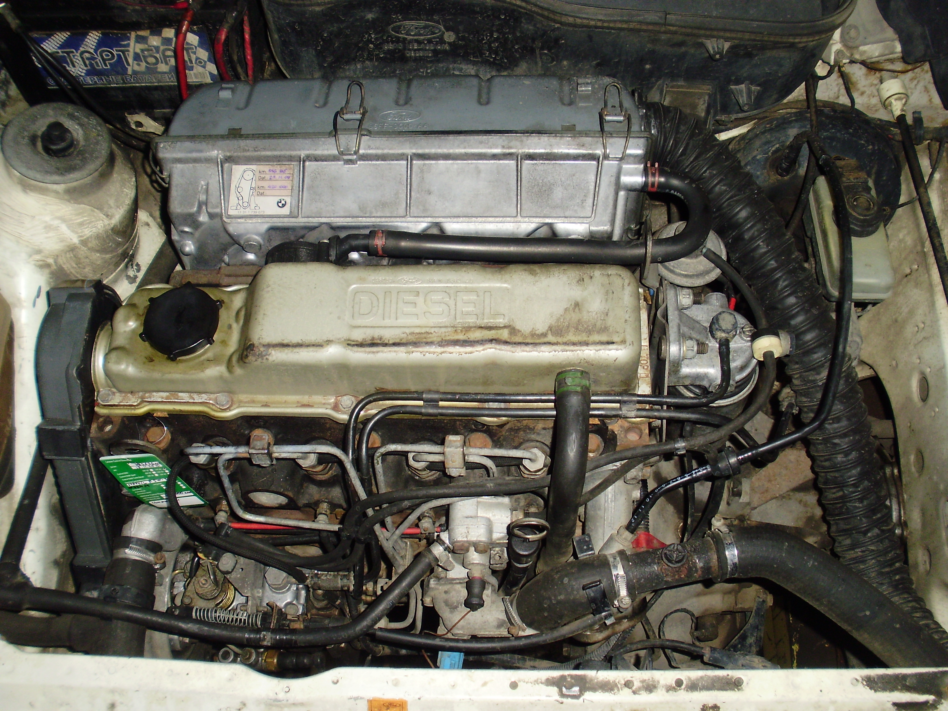 Engine 1.6 diesel (code LTC) on the Escort prod. year 1988 with the distributor pump Bosch and AGR-system.